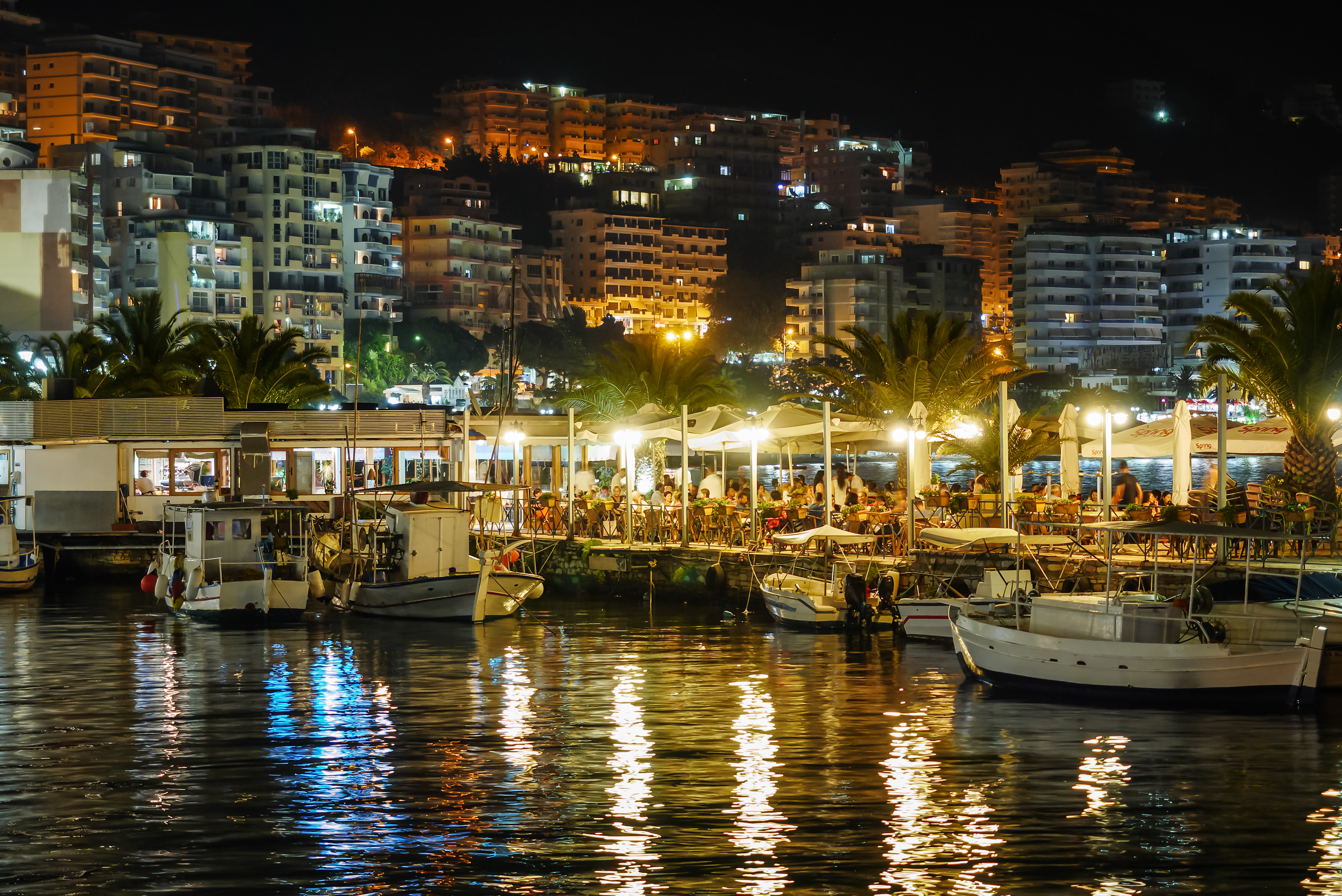 Saranda by night